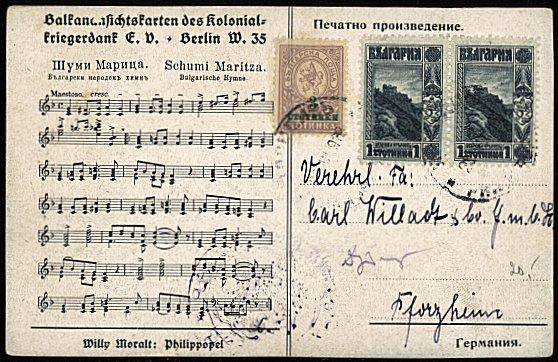 The national anthem of the Kingdom of Bulgaria, Shumi Maritsa, in a German postcard.